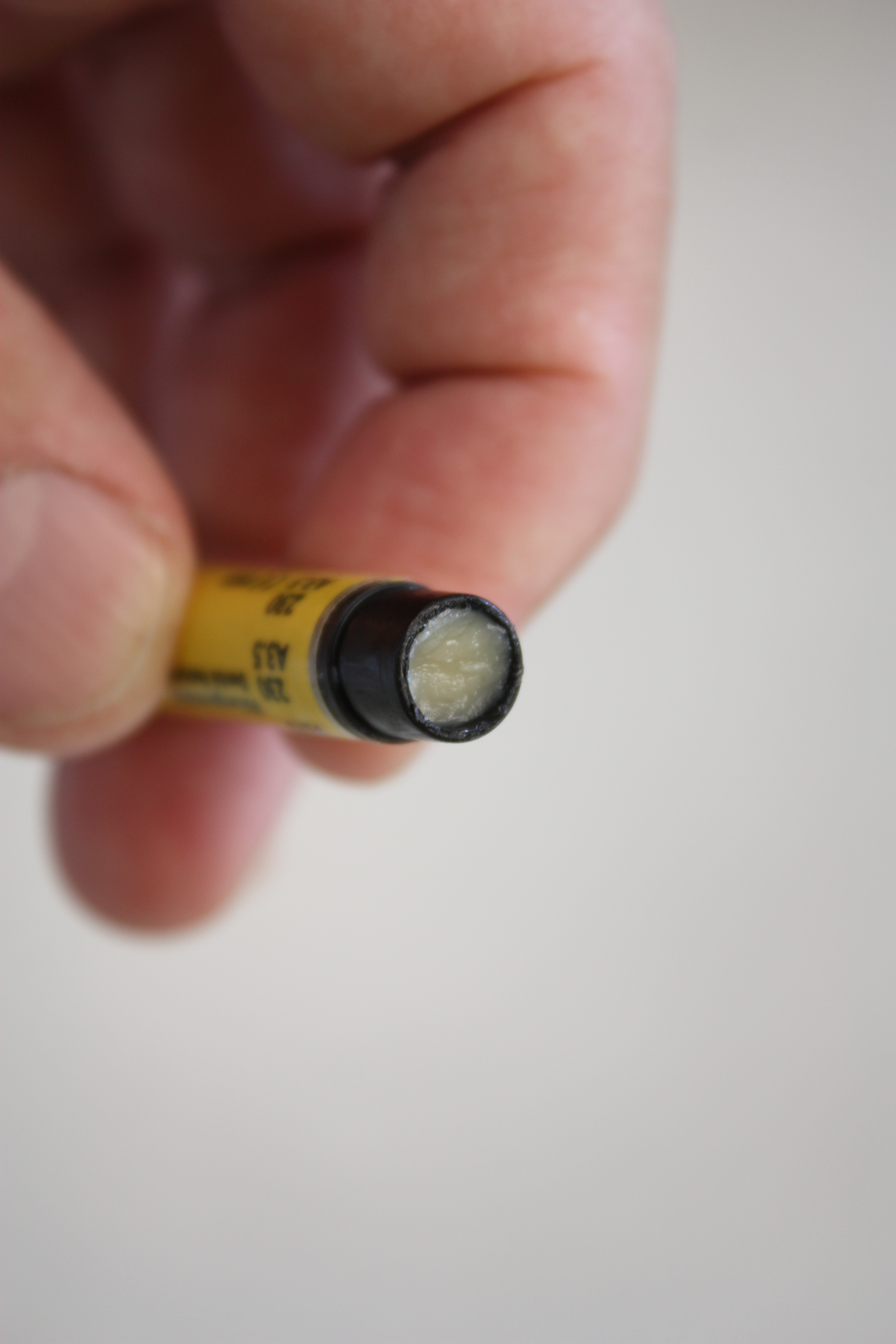 Komposite (Zahnmedizin) - Tetric Ceram 2009